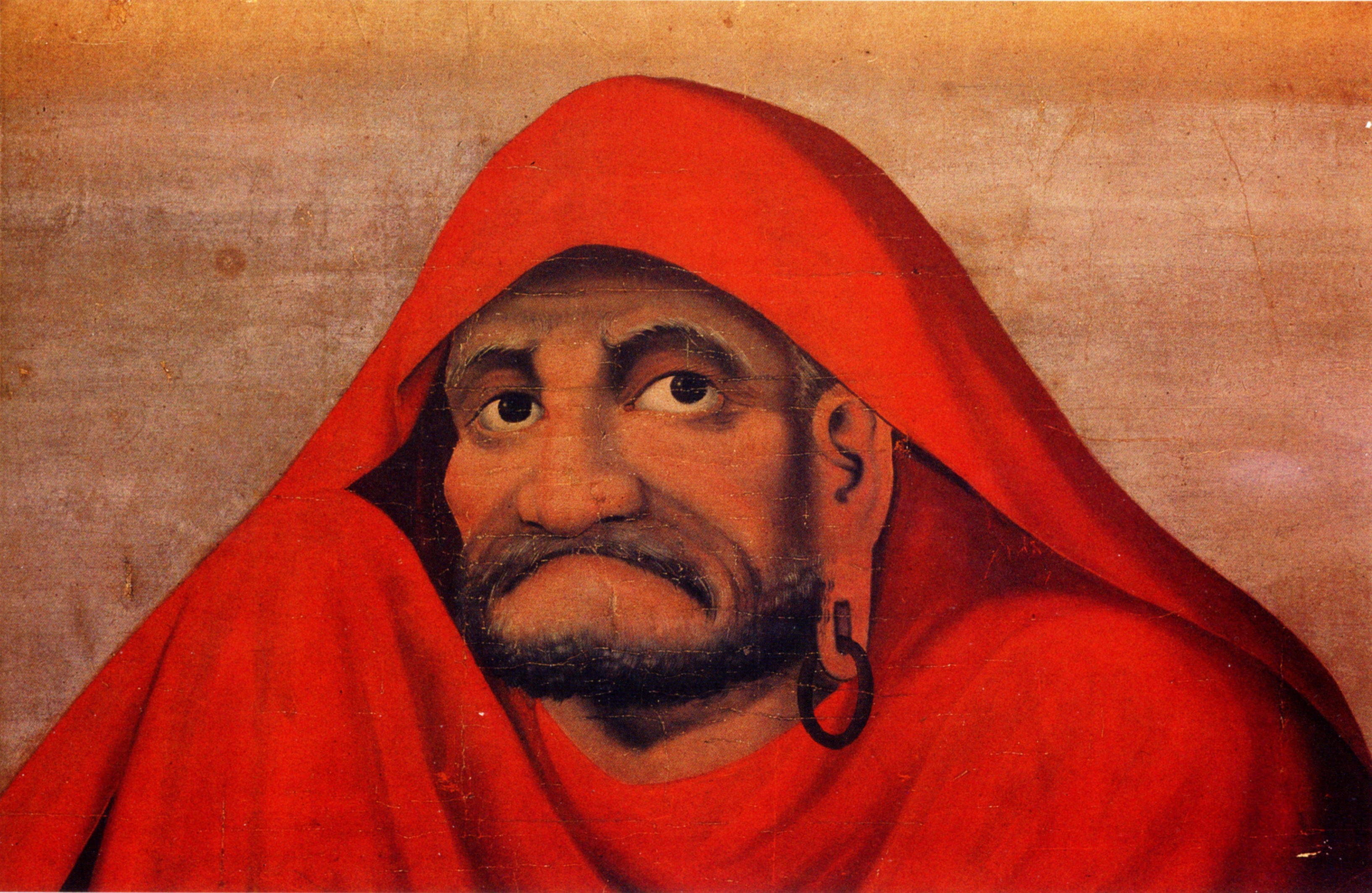 Hanging Scroll of a Lohan by Japanese painter Shiba Kōkan. Height 40.8 cm Width 63.3 cm. Located in National Palace Museum, Taipei.